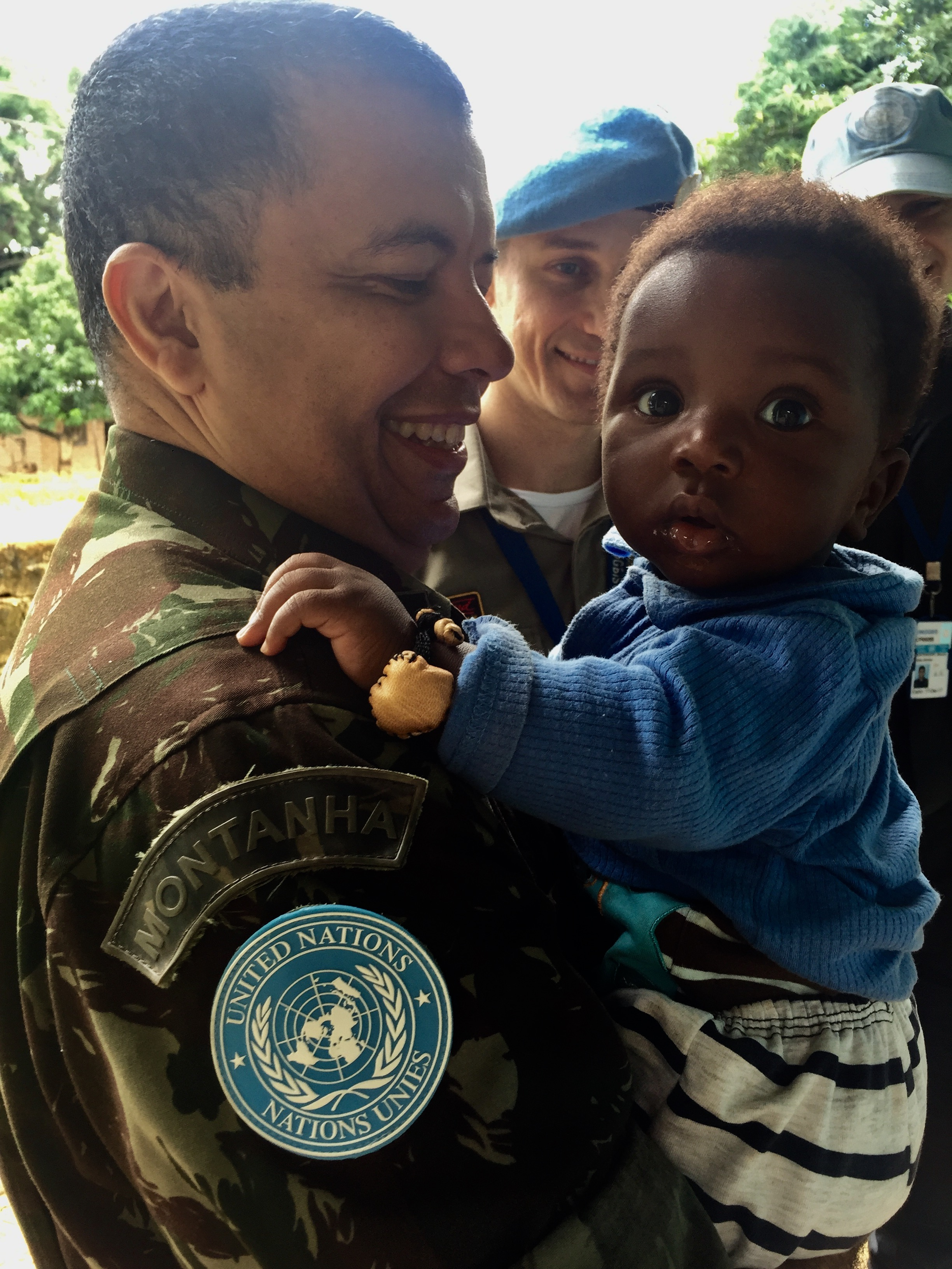 Colonel Olyntho, from Brazilian Army, working for UNIOGBIS in Guinea-Bissau, holds a child during a visit in a school in Bor Neighborhood, in the city of Bissau. This is an image of "African people at work" from Guinea-Bissau